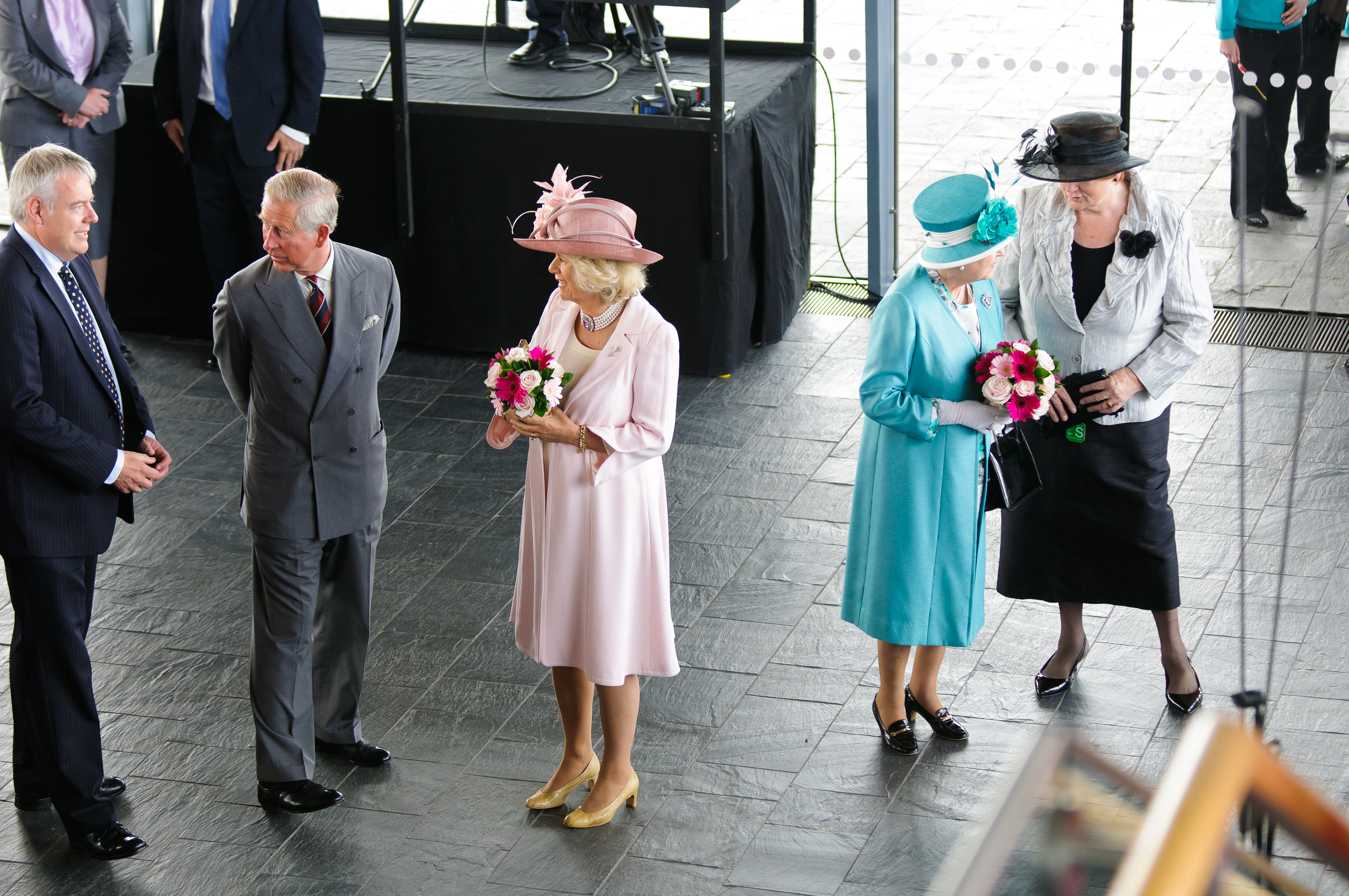 Official opening of the Fourth Assembly at the National Assembly building, Cardiff, Wales. From left to right: Carwyn Jones (First Minister of Wales), Prince of Wales, Duchess of Cornwall, Queen Elizabeth II, Rosemary Butler (Presiding Officer of the National Assembly for Wales)